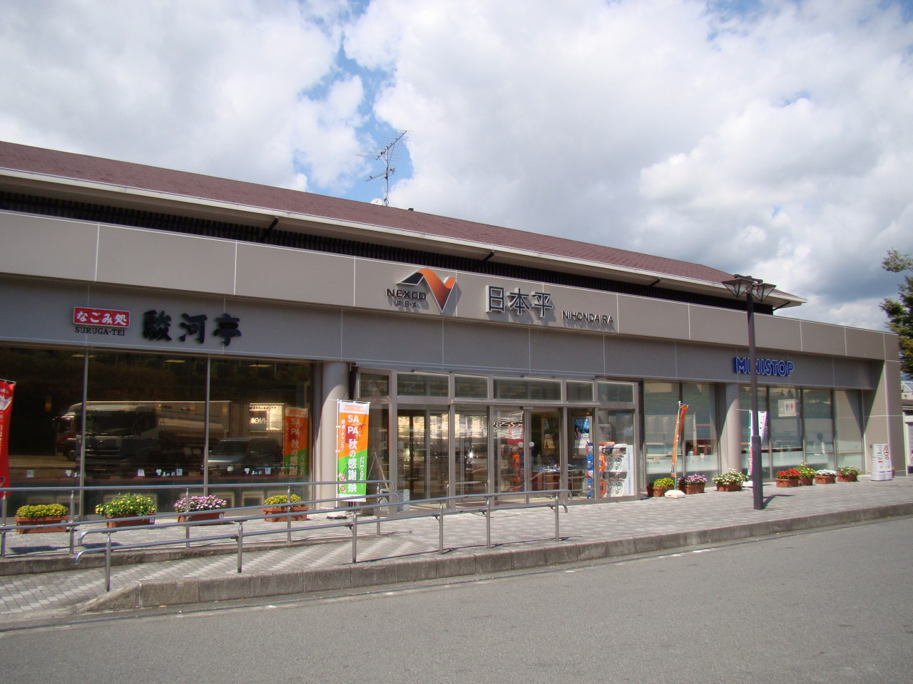 Tomei Expressway Nihondaira Parking Area (bound for Nagoya) in Shizuoka Prefecture, Japan